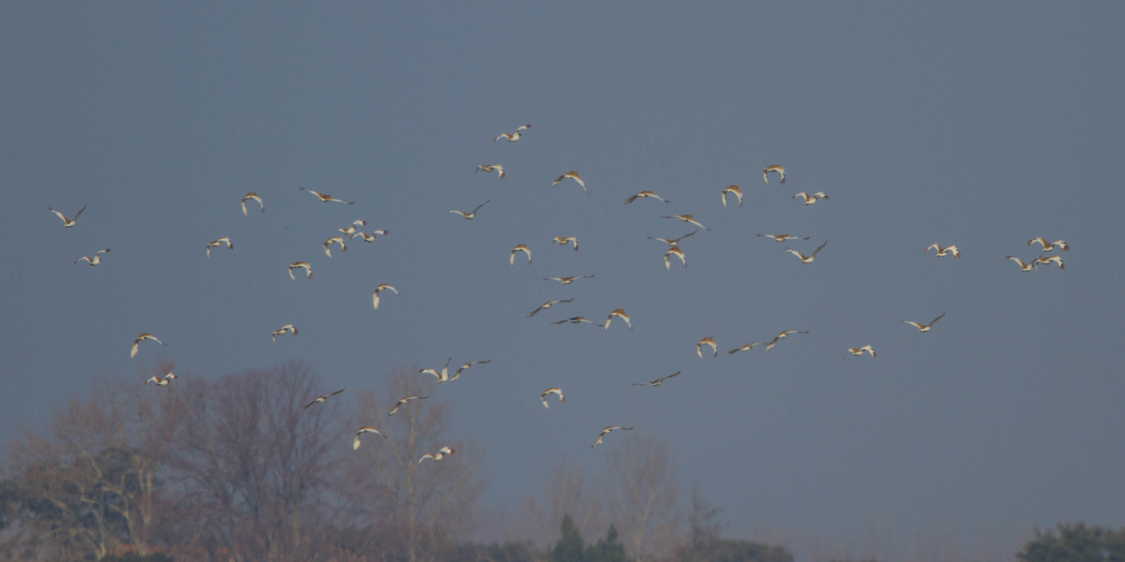 Little Bustard Tetrax tetrax, La Crau, southern France